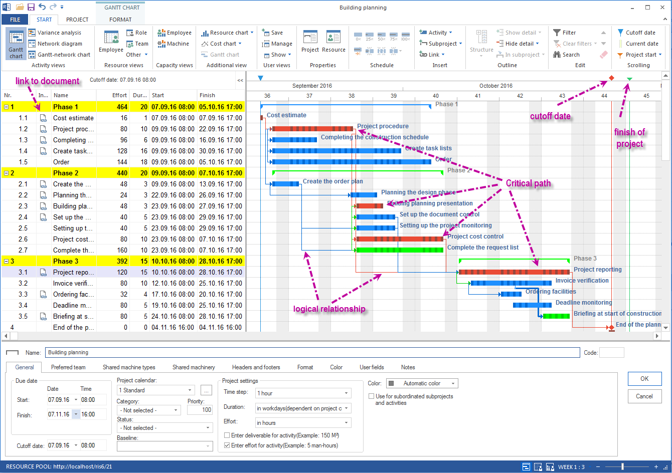 Rillsoft Project showing Gantt chart